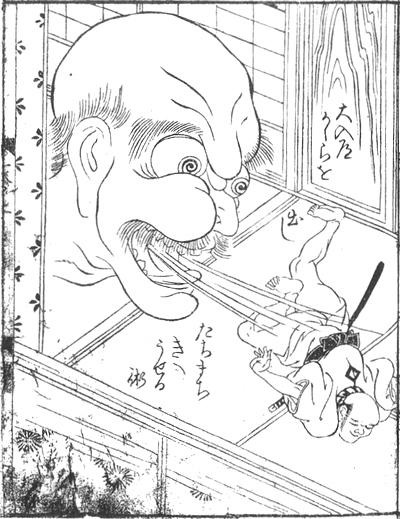 O-nyudo (大入道) from the Tengutsū (天狗通)